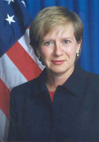 Marcie Berman Ries, U.S. Ambassador to Albania. Photo from U.S. Department of State: Biography of Marcie Berman Ries.